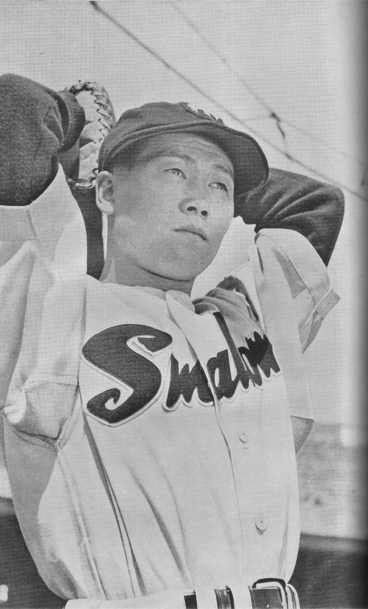 Akira Takahashi (Kokutetsu Swallows). taken in 1950.